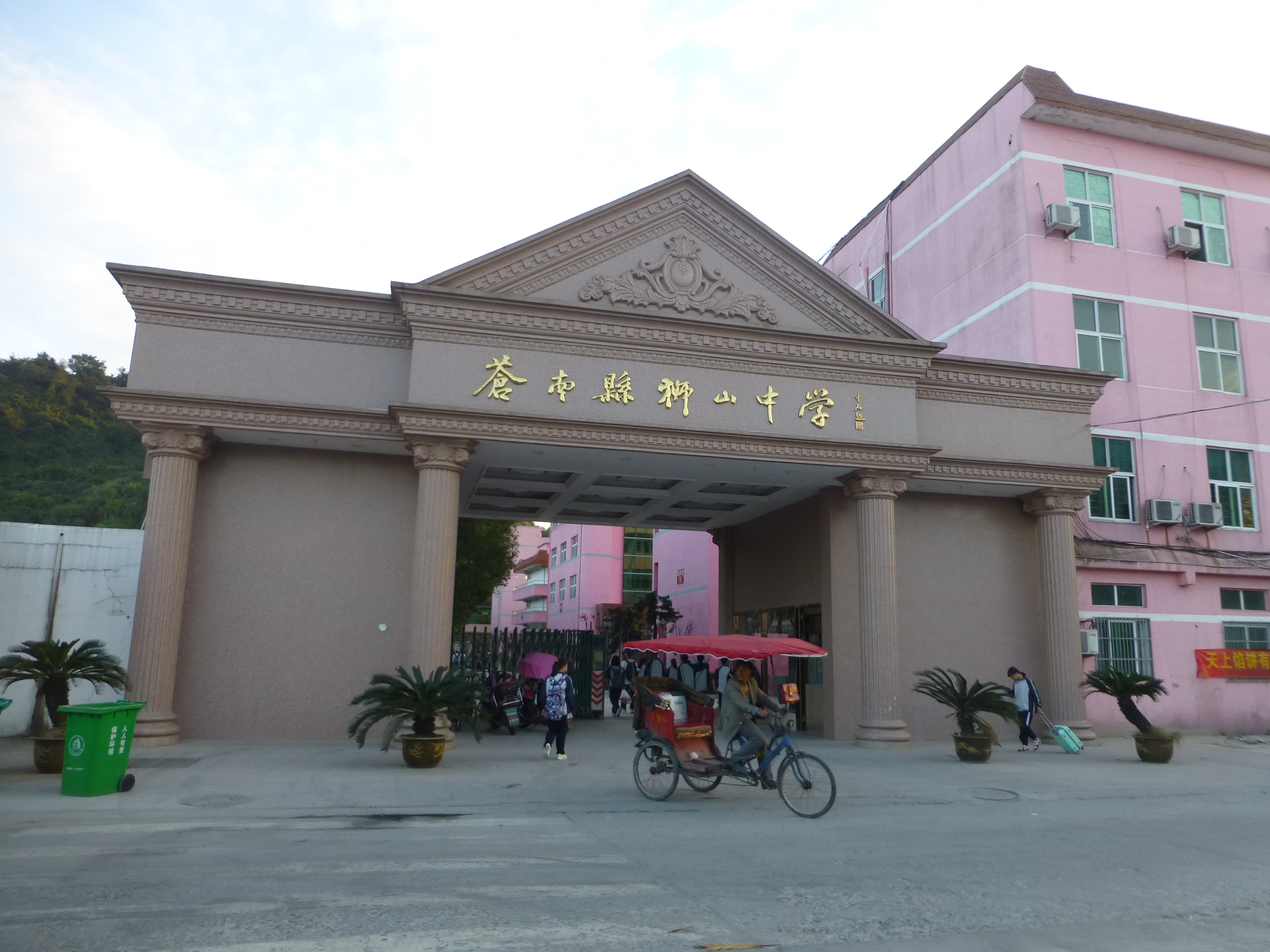 Jinxiang Town, Cangnan County, Zhejiang, China. Pictures taken on the south-eastern outskirts of the central town.